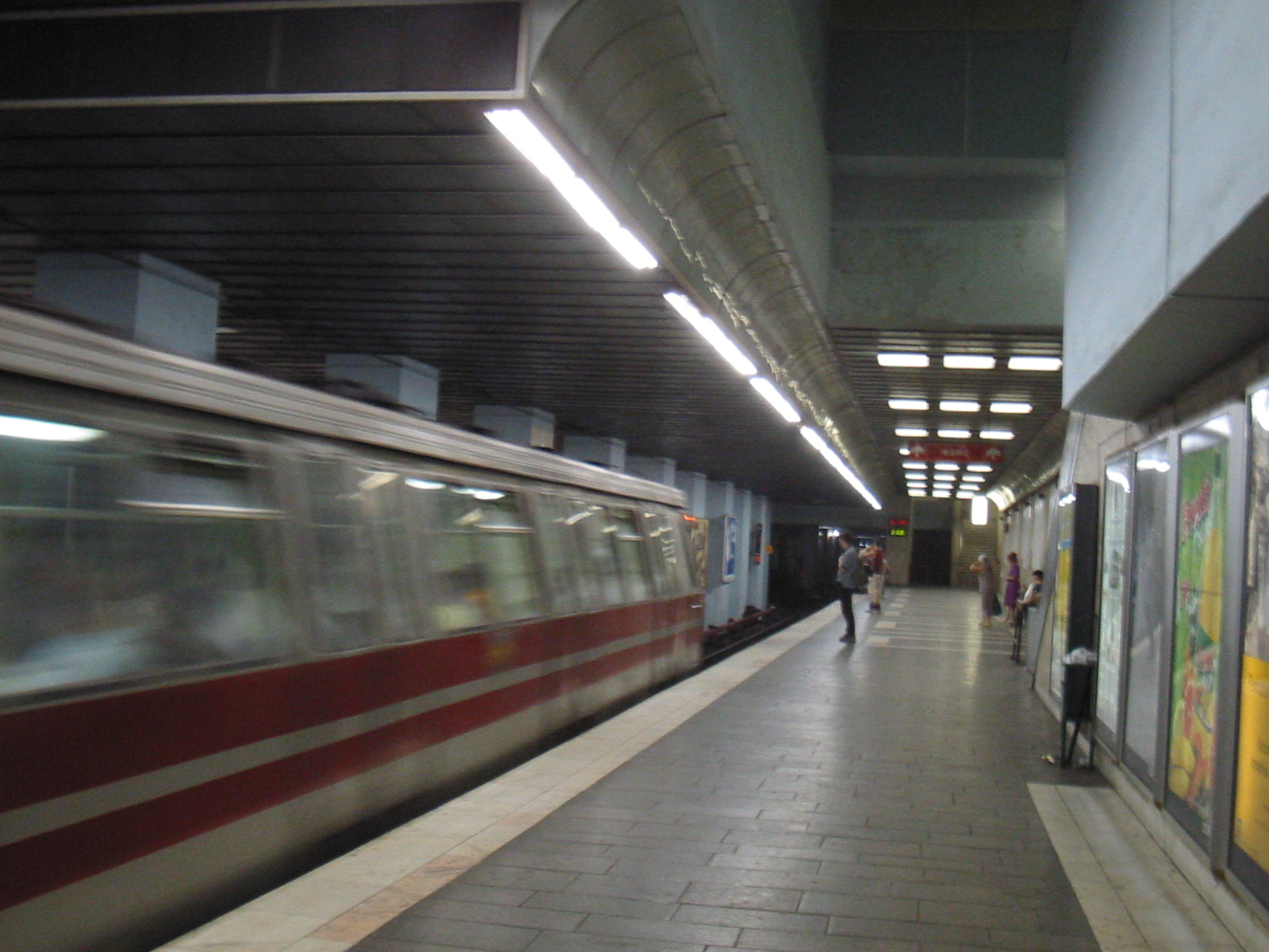 Bucharest metro train passing through a station.